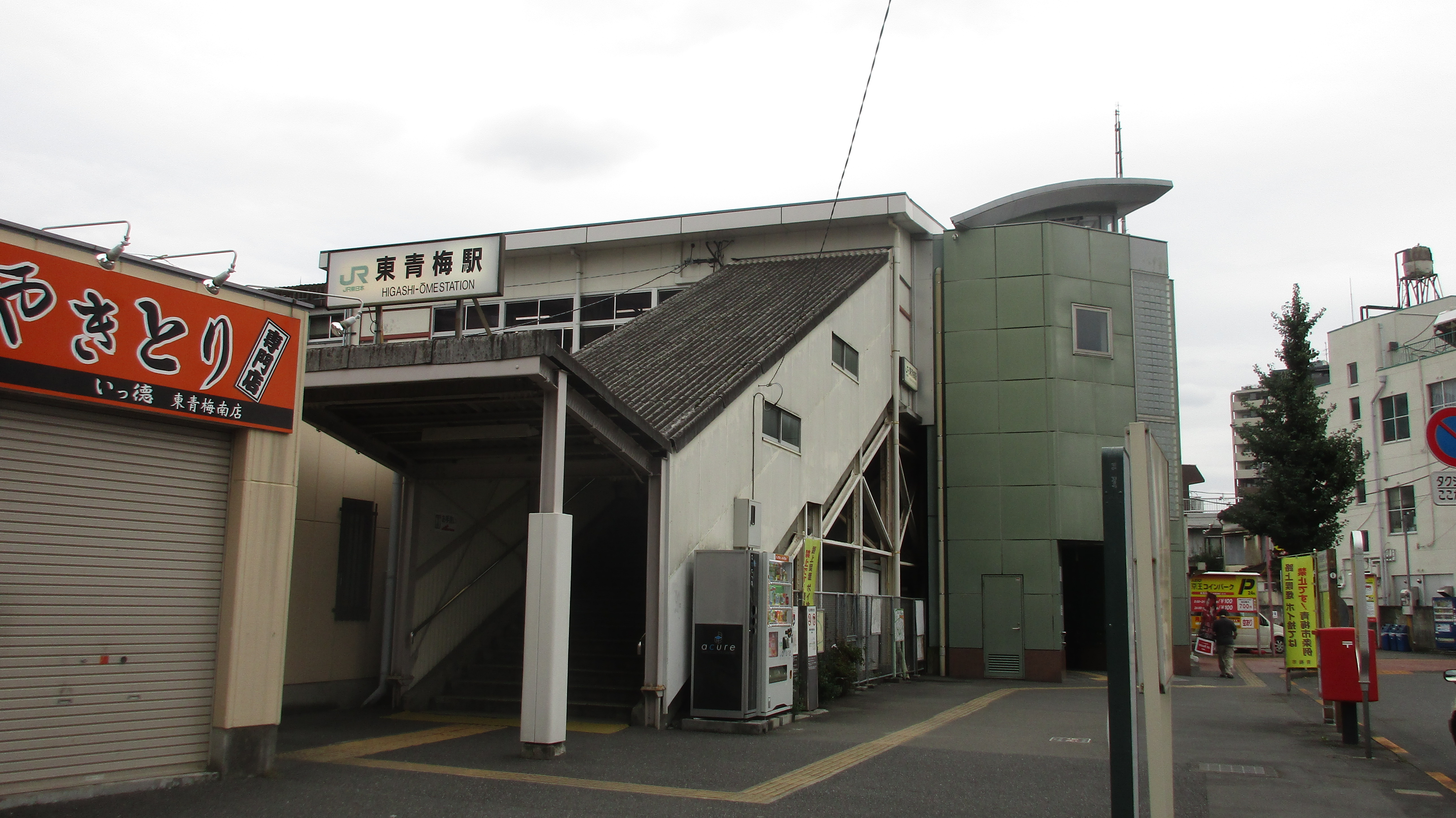 JR青梅線 東青梅駅